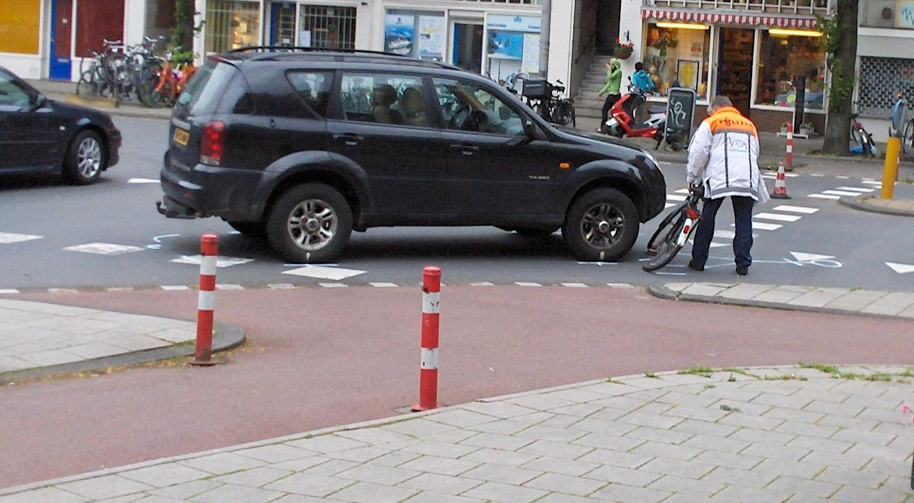 Who created this image? Stef Breukel Who owns the copyright to this image? Stef Breukel did. Where did this image come from? Stef Breukel donated it to wikipedia to show the danger of the A-pillar-Blind-spot.JPG